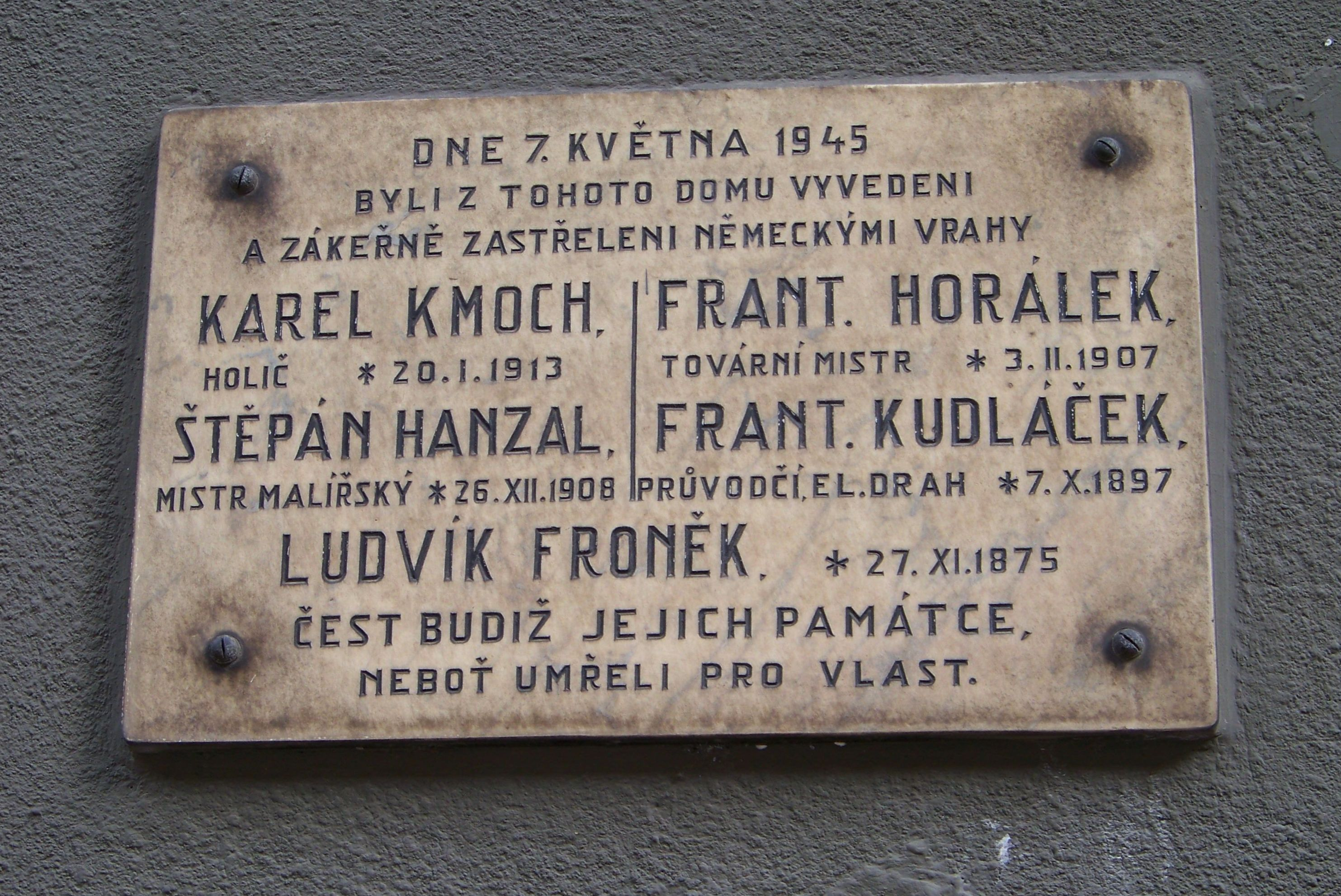 Prague-Žižkov, the Czech Republic. Koněvova 1853/129, a plaque to victims of Prague uprising. - OpenStreetMap(Info)